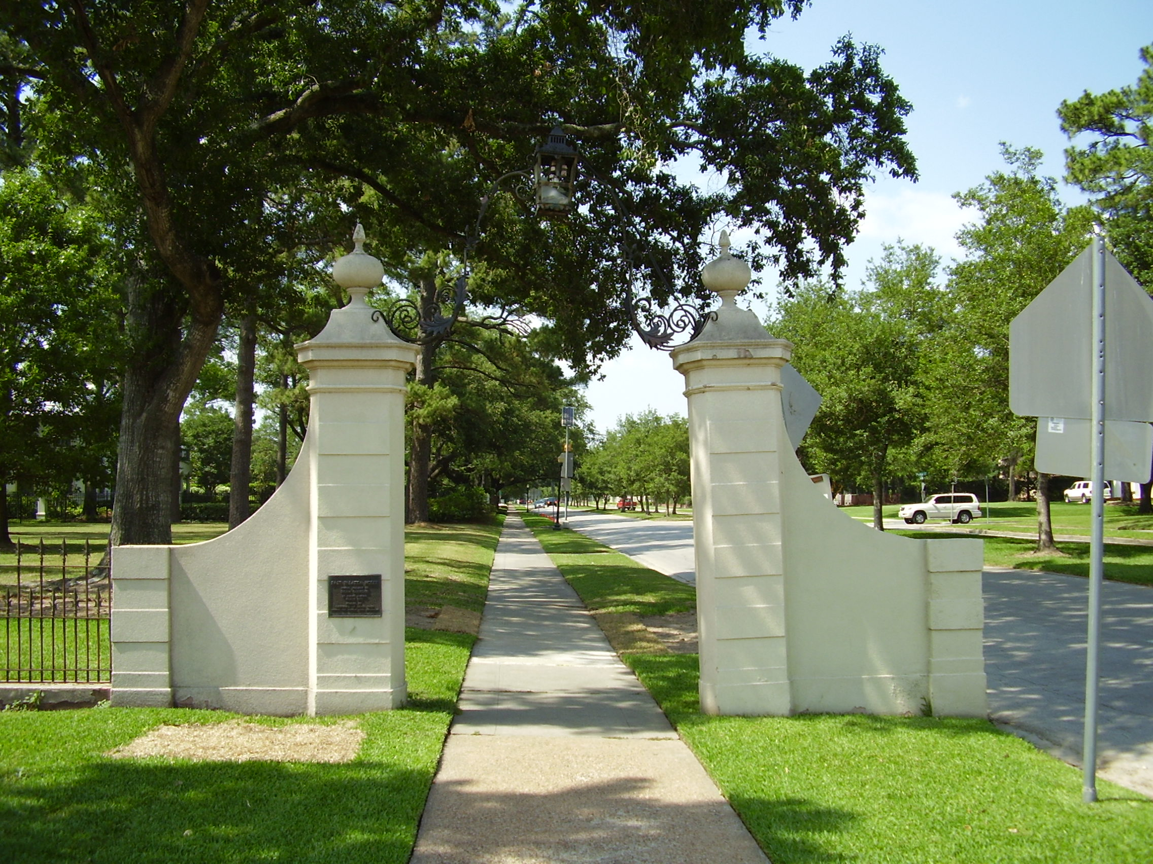 River Oaks subdivision gates